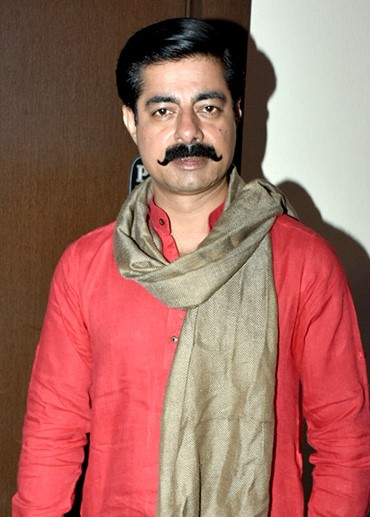 Sushant Singh graces the CINTAA event.